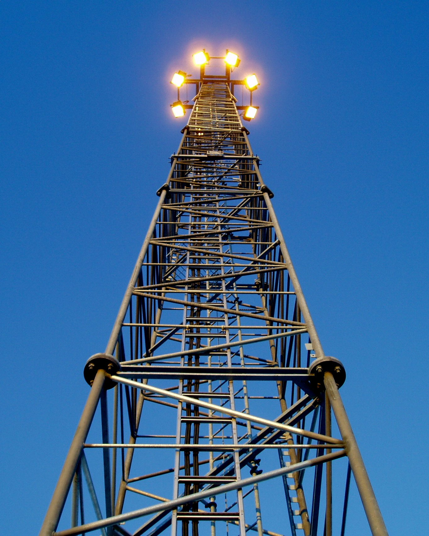 Floodlight tower.